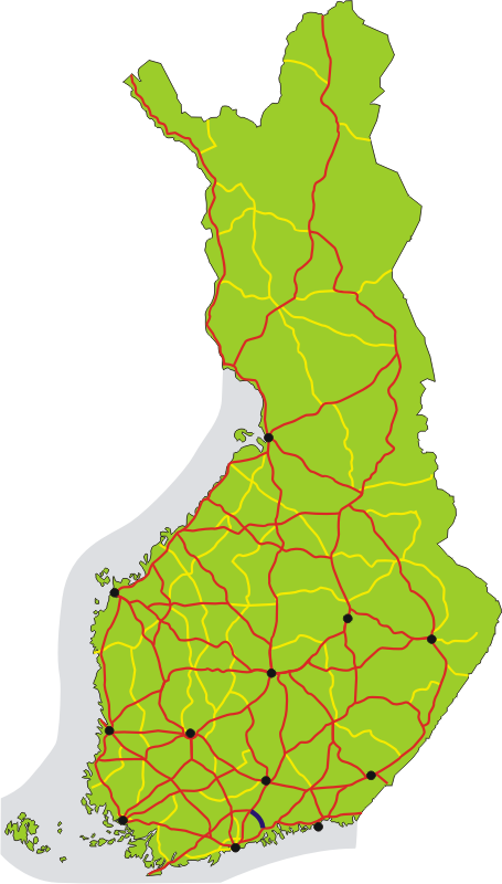 Map of main road 55 in Finland, shown in dark blue. Roads number 1-29 are red, 40-98 yellow. Black dots show the 12 biggest urban areas.